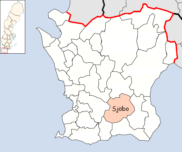 Sjöbo Municipality in Scania, Sweden Designed by me. Mere outlines are a PD source from